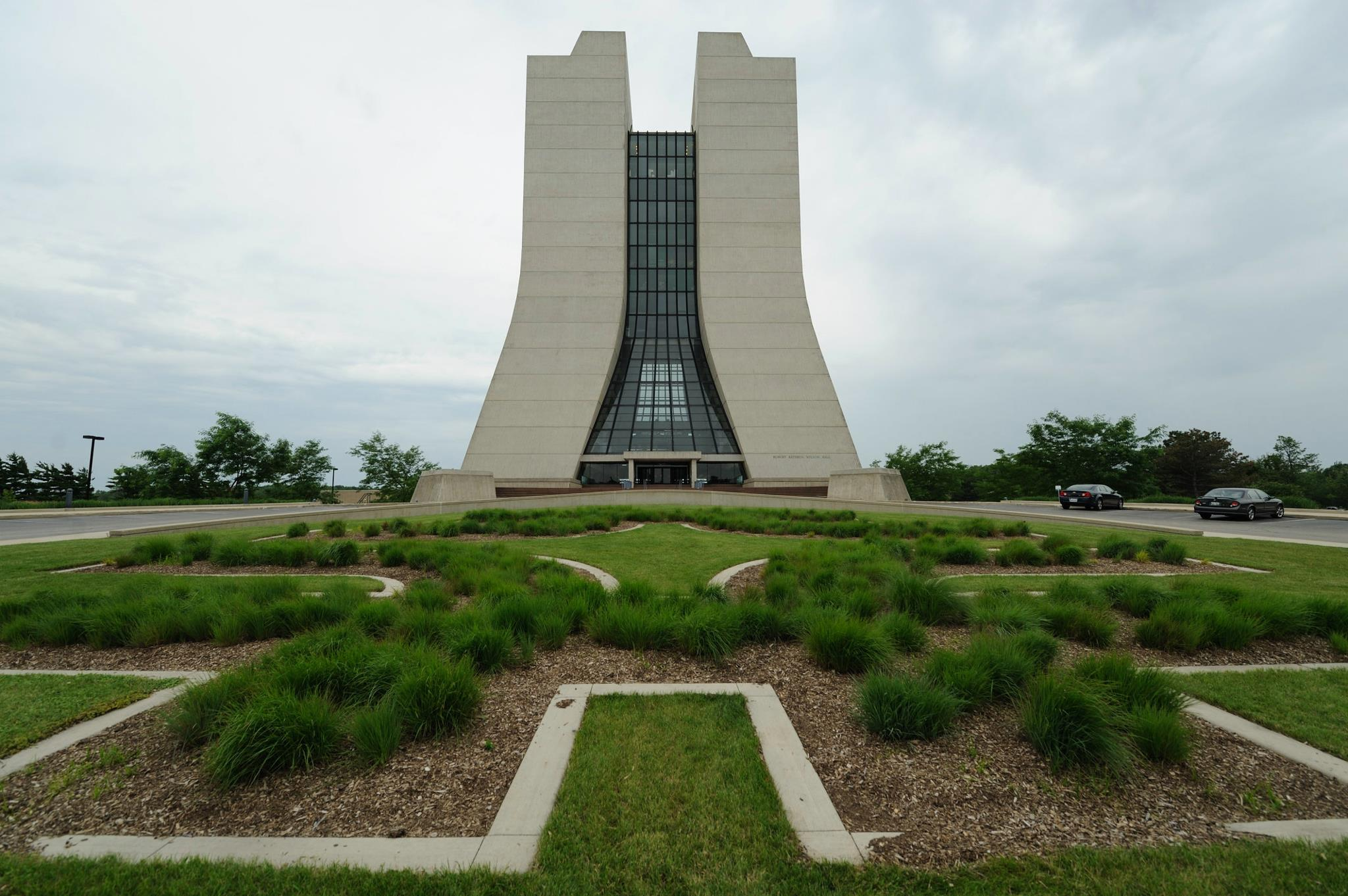 Robert Rathbun Wilson Hall at Fermi National Accelerator Laboratory (Fermilab) in 2011. License requires attribution to Steven Keys and